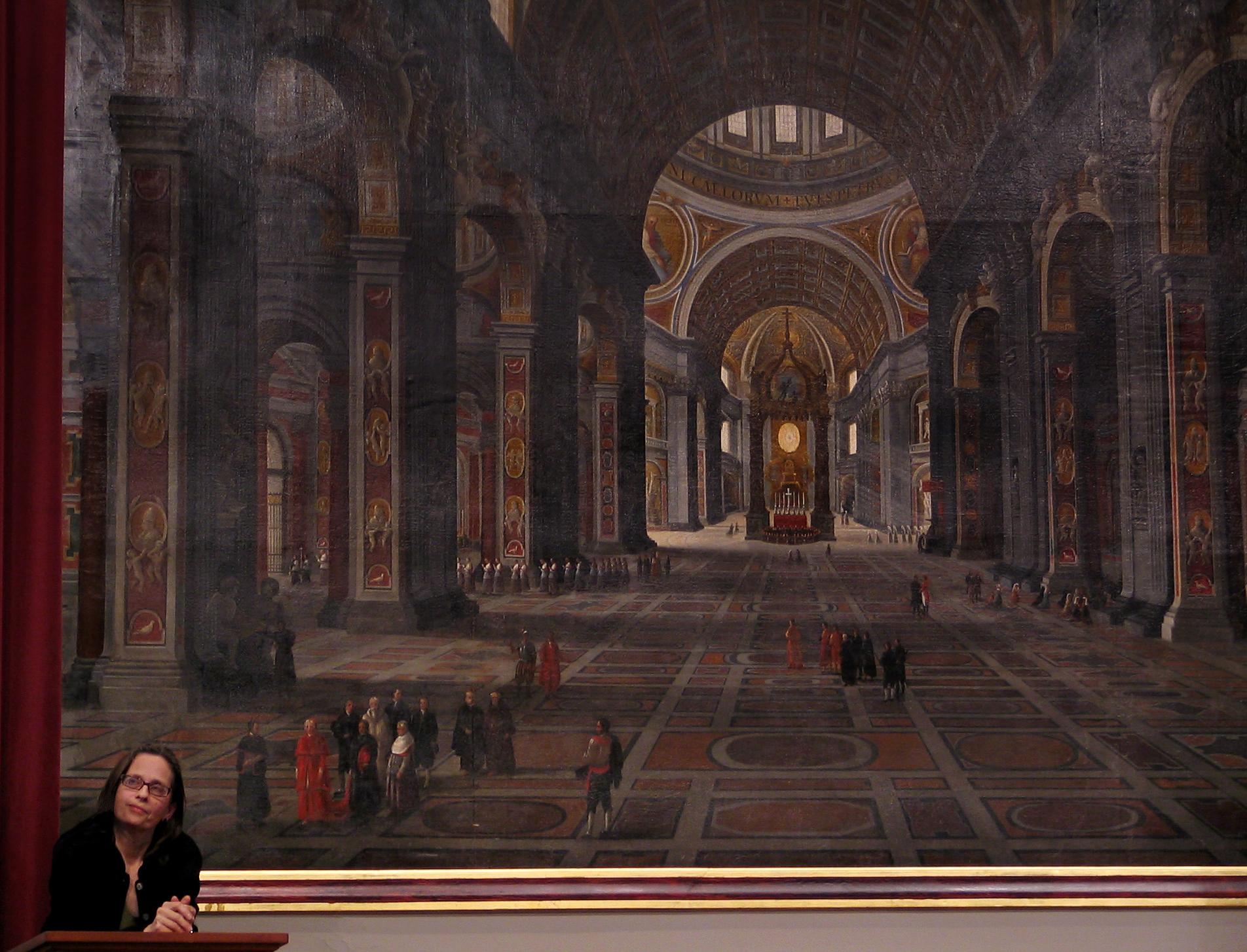 Lydia Davis reading at UGA Chapel - Cooke's 1847 "Interior of St. Peter's"